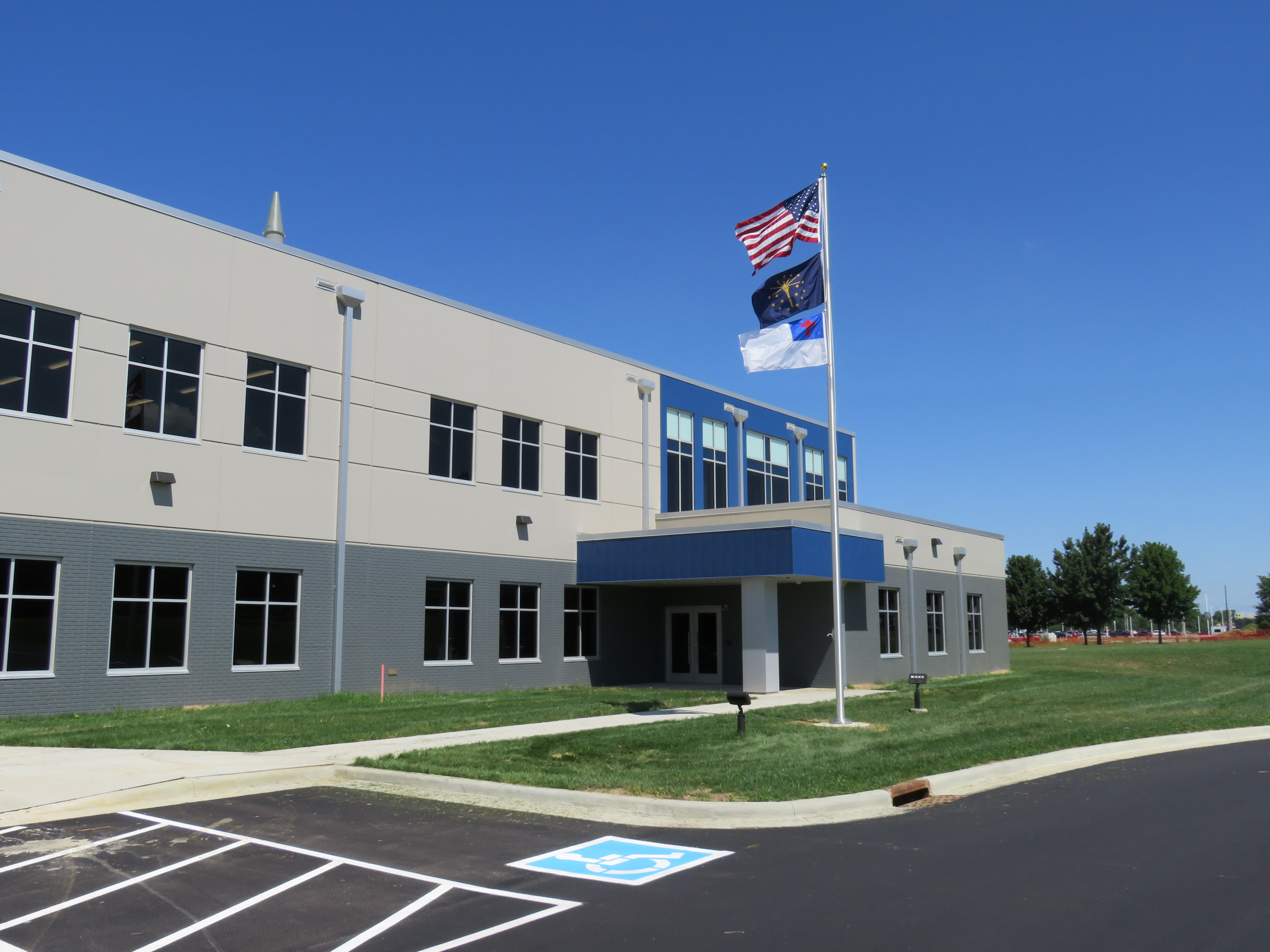 Entrance of Epworth Campus